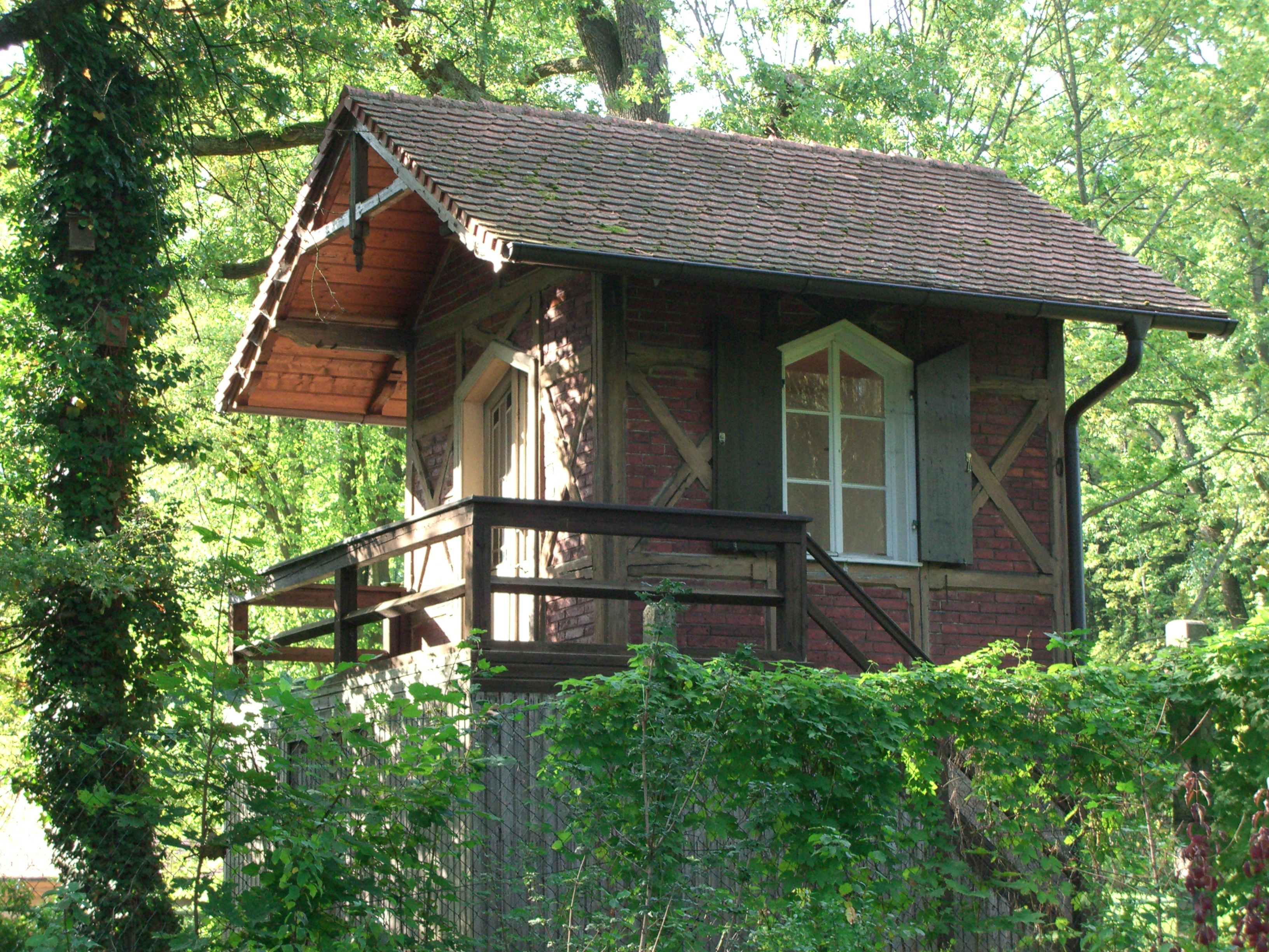 Summerhouse viewed at the angle at the Burgberg (next to the Burgberggarten) in Erlangen, Germany.